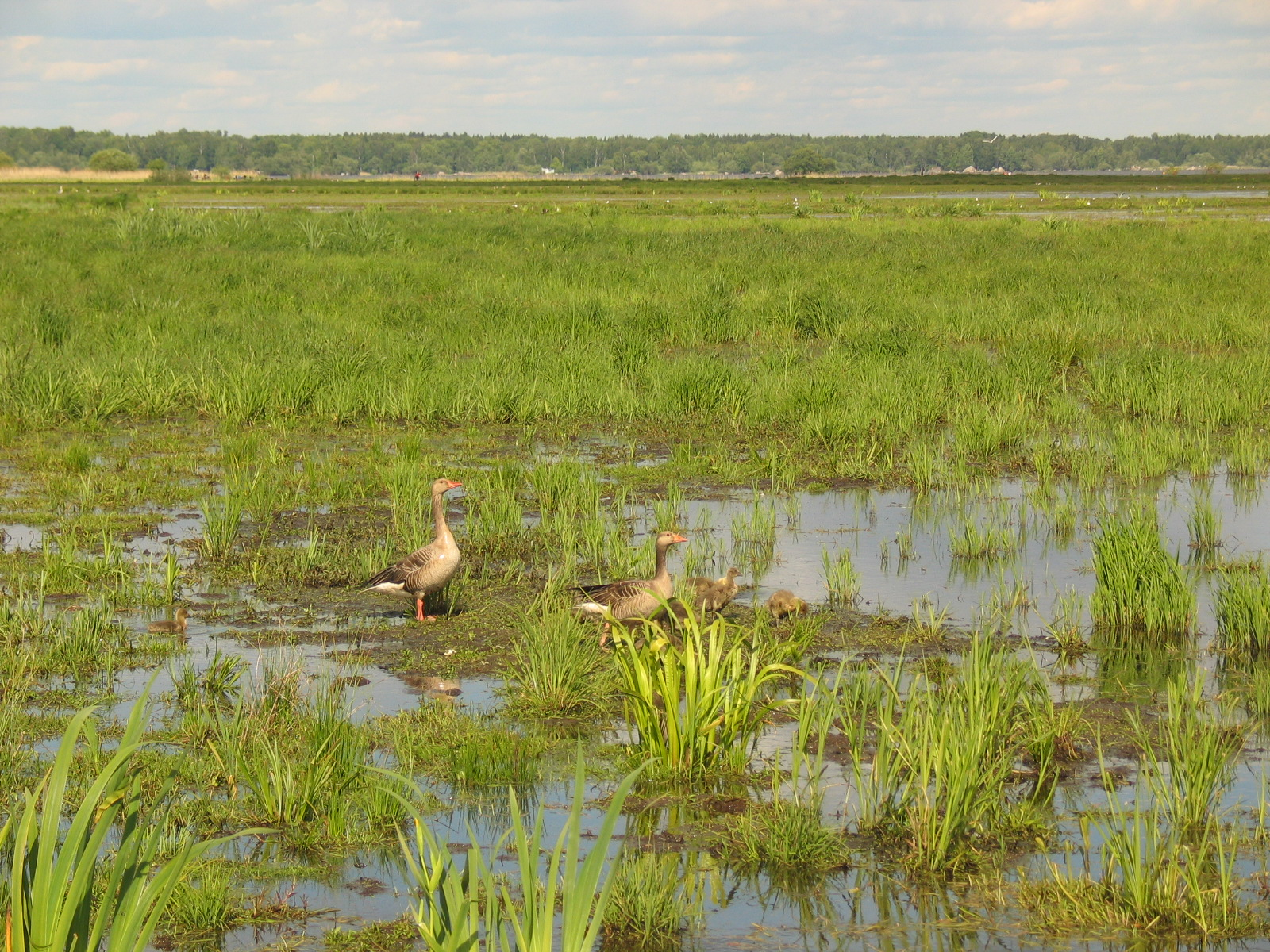 From the nature park "Oset", Örebro, Sweden